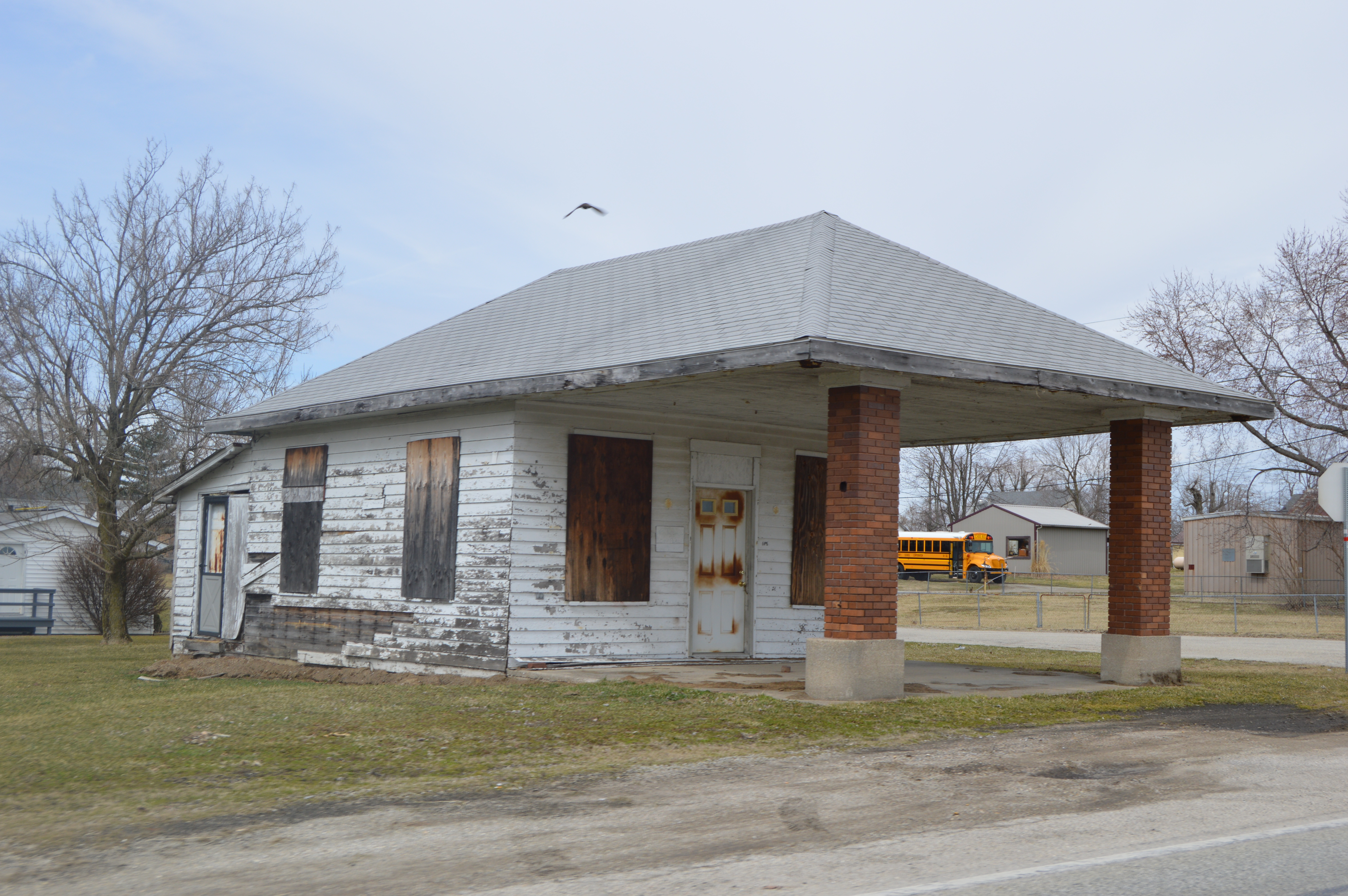 Front and southern side of a former gas station located along State Road 1 at Blooming Grove in Blooming Grove Township, Franklin County, Indiana, United States.